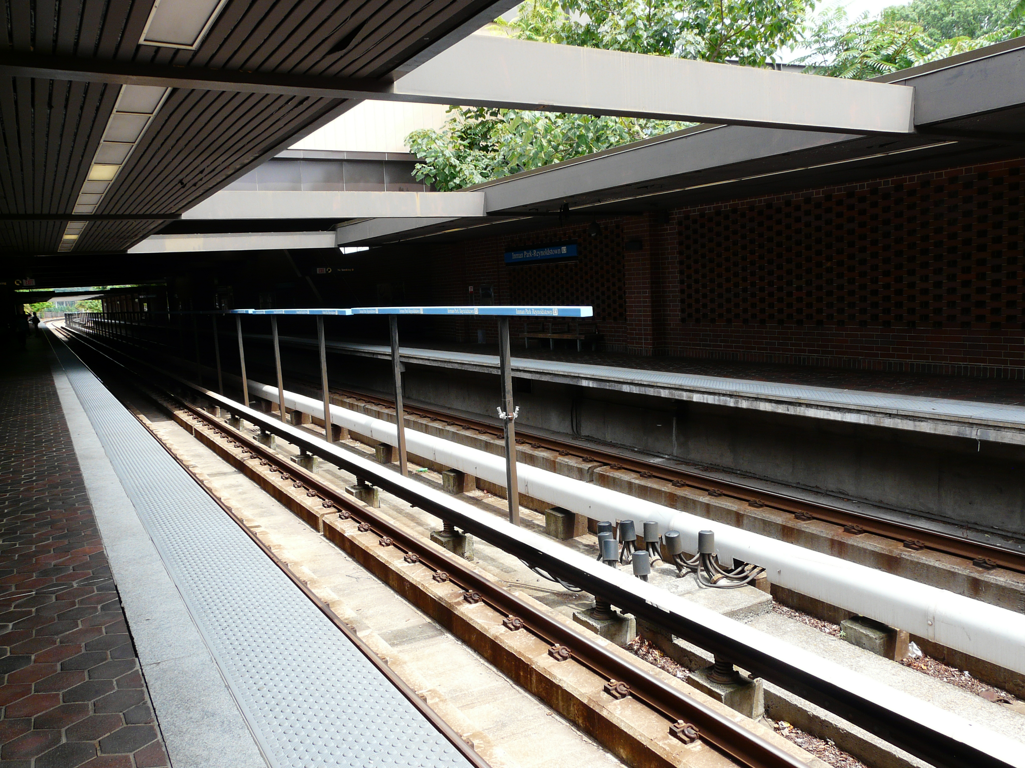 Inman Park-Reynoldstown station on Atlanta's MARTA rapid transit system